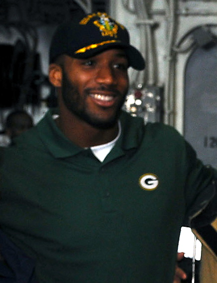 The Green Bay Packers' Jarrett Bush, center, poses for a photo aboard amphibious assault ship USS Kearsarge (LHD 3) while the ship is under way in the Red Sea Feb. 14, 2011. (U.S. Navy photo by Mass Communication Specialist 2nd Class Joshua Mann/Released)" →This file has been extracted from another file: Jarrett Bush with U.S. Sailors and Marines.jpg.